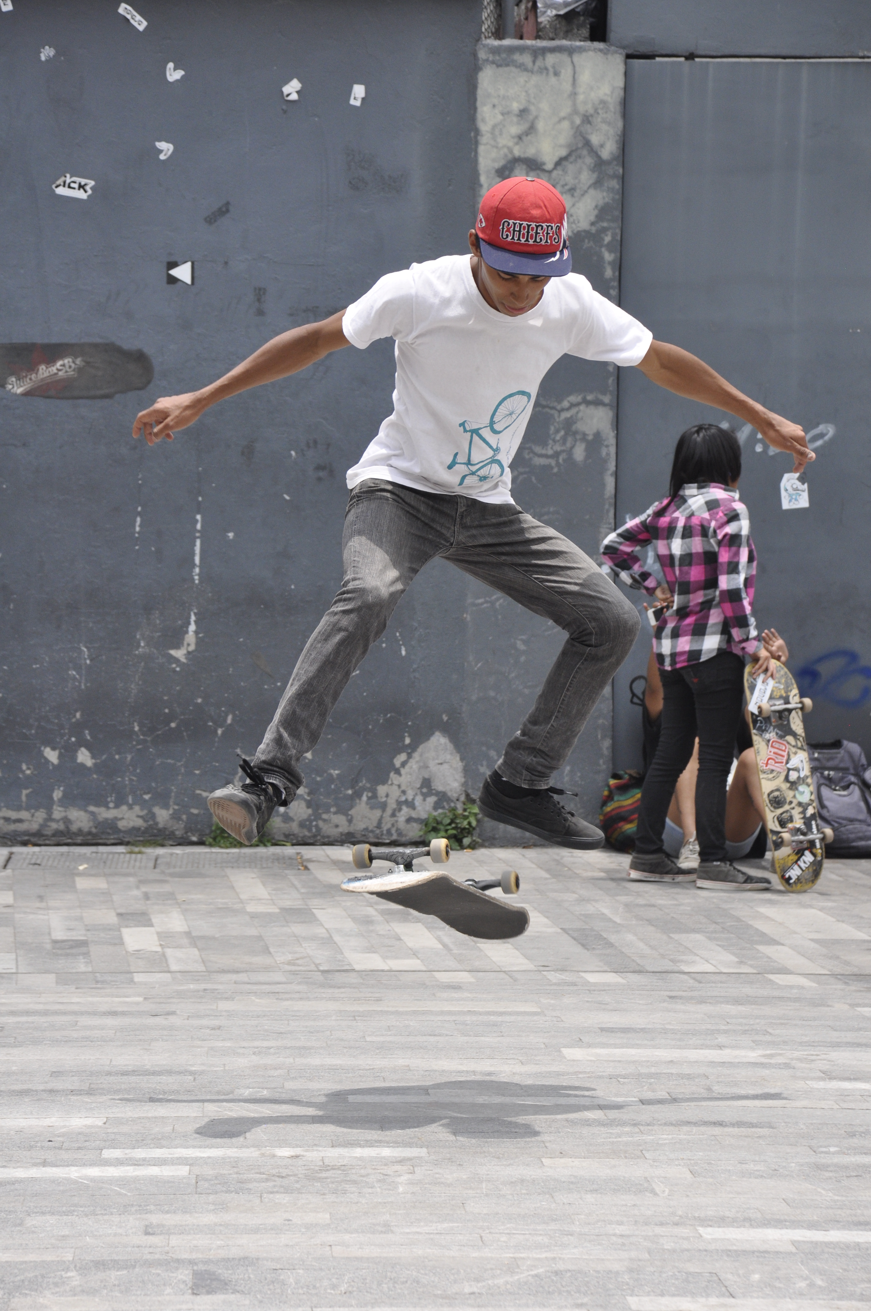 Skateboarding at Calle Dr Mora, just west of Alameda Central in Mexico City: Flip trick.